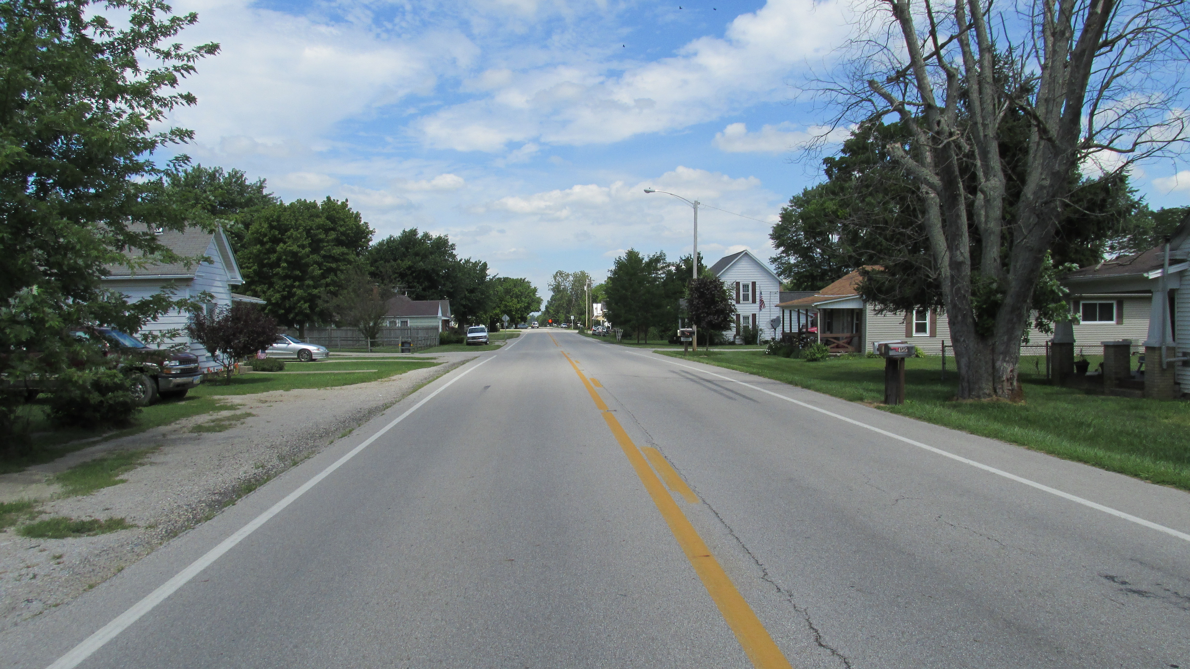 Looking north on Ohio Highway 207 in Pancoastburg.